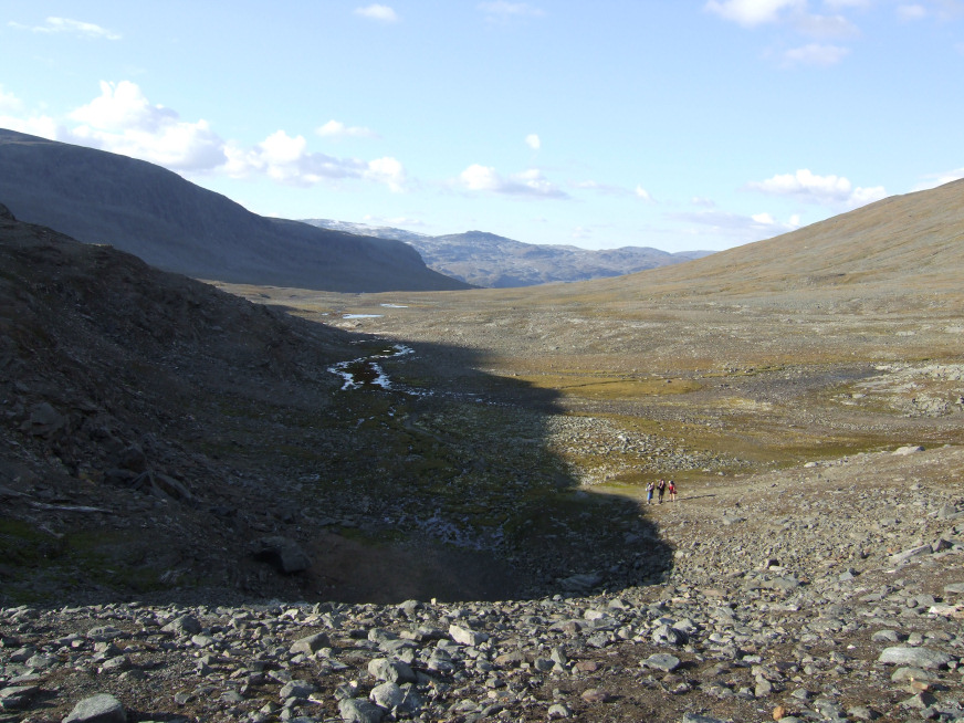 View from the mountain pass Tjäktja to the North, Kungsleden trail (Lapland, Sweden).